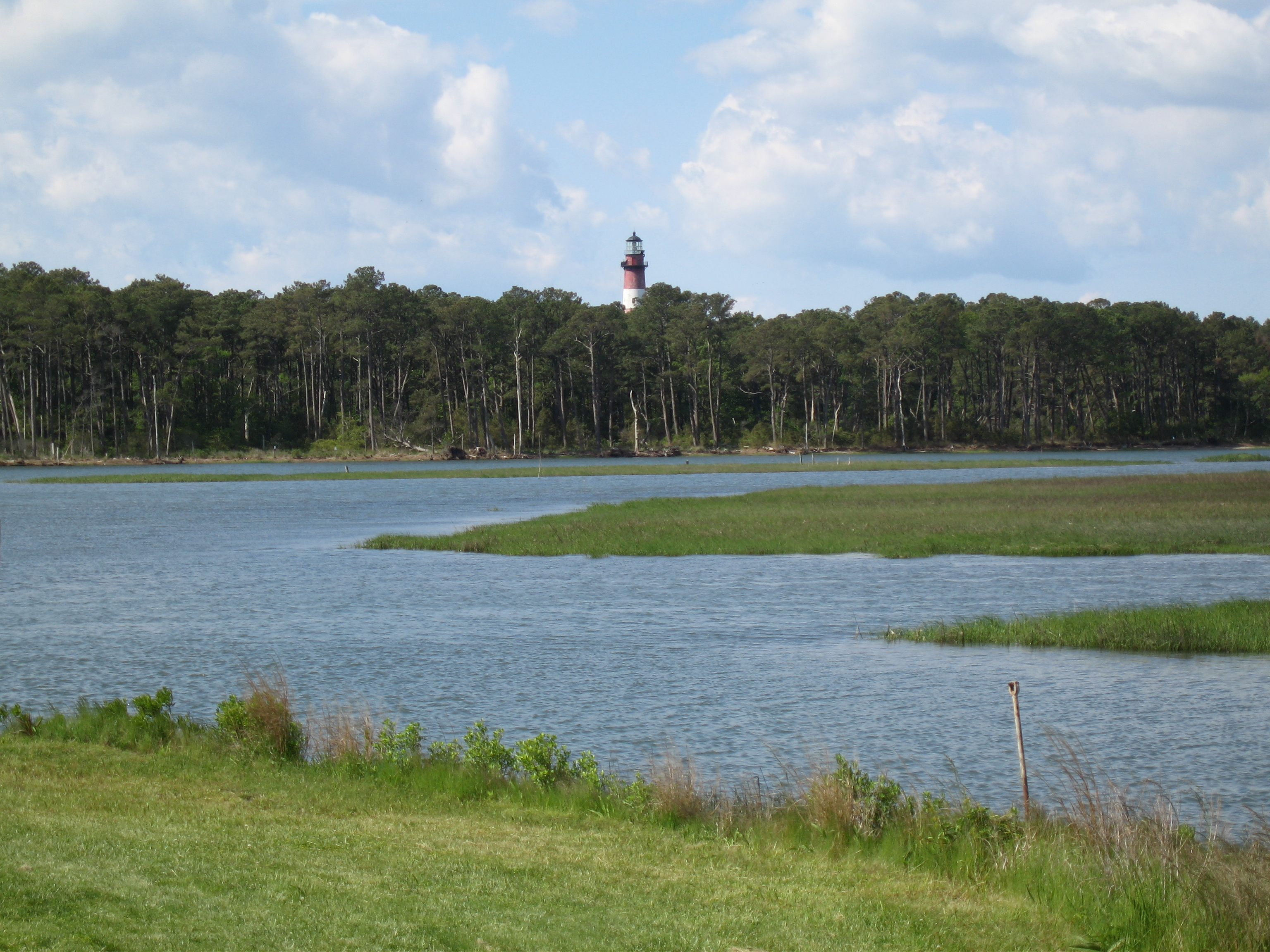 Chincoteague National Wildlife Refuge on Assateague Island, Virginia showing the Assateague Channel with the Assateague Light in the distance. Photograph taken in May 2008 from Maddox Boulevard facing south, showing the north side of the island.